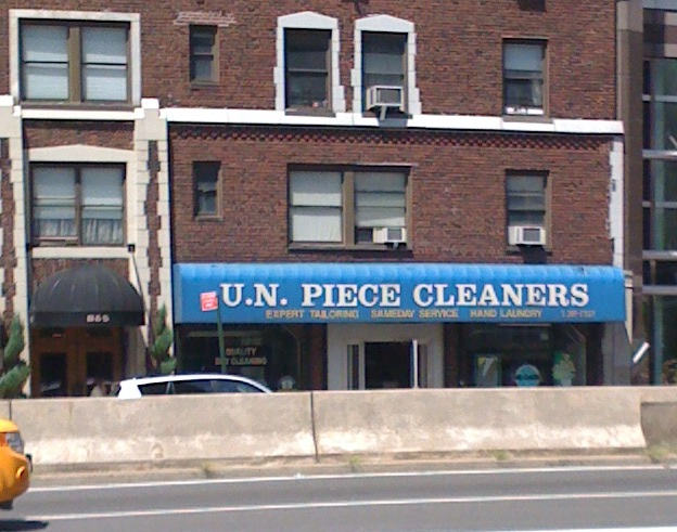 Example of word play seen near the UN Headquarters in New York City.